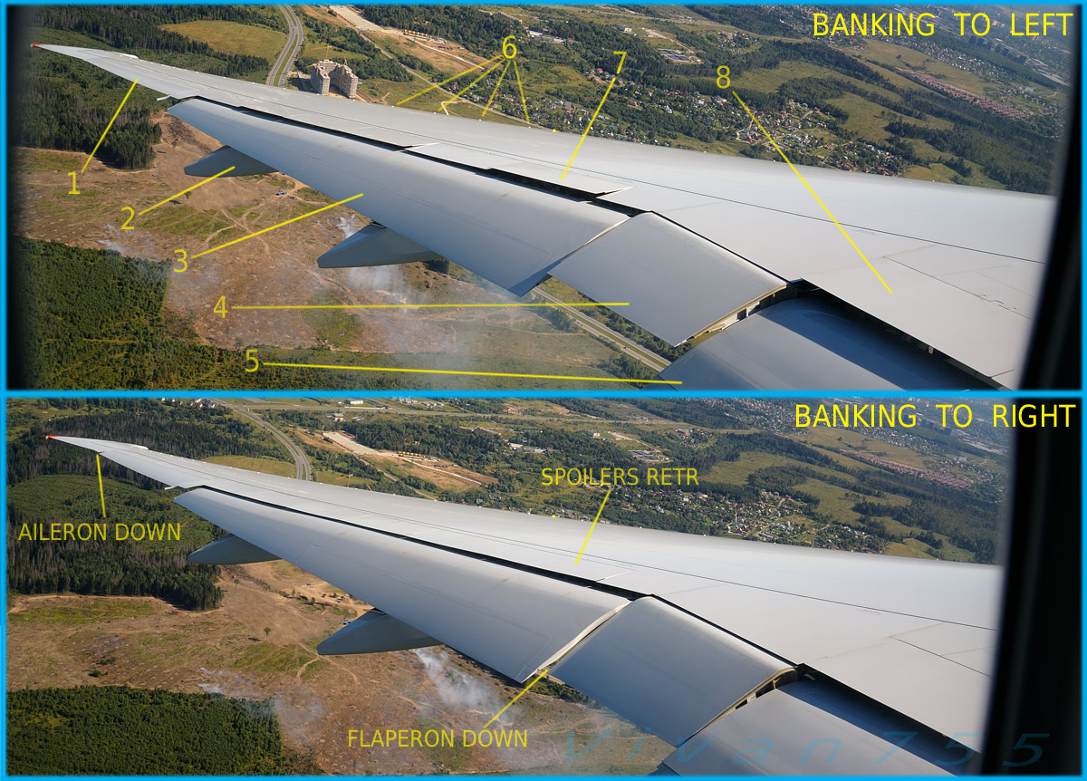 1 — aileron, 3 — external flap, 4 — flaperon, 5 — internal flap, 7 — spoiler, 8 — ground spoiler.